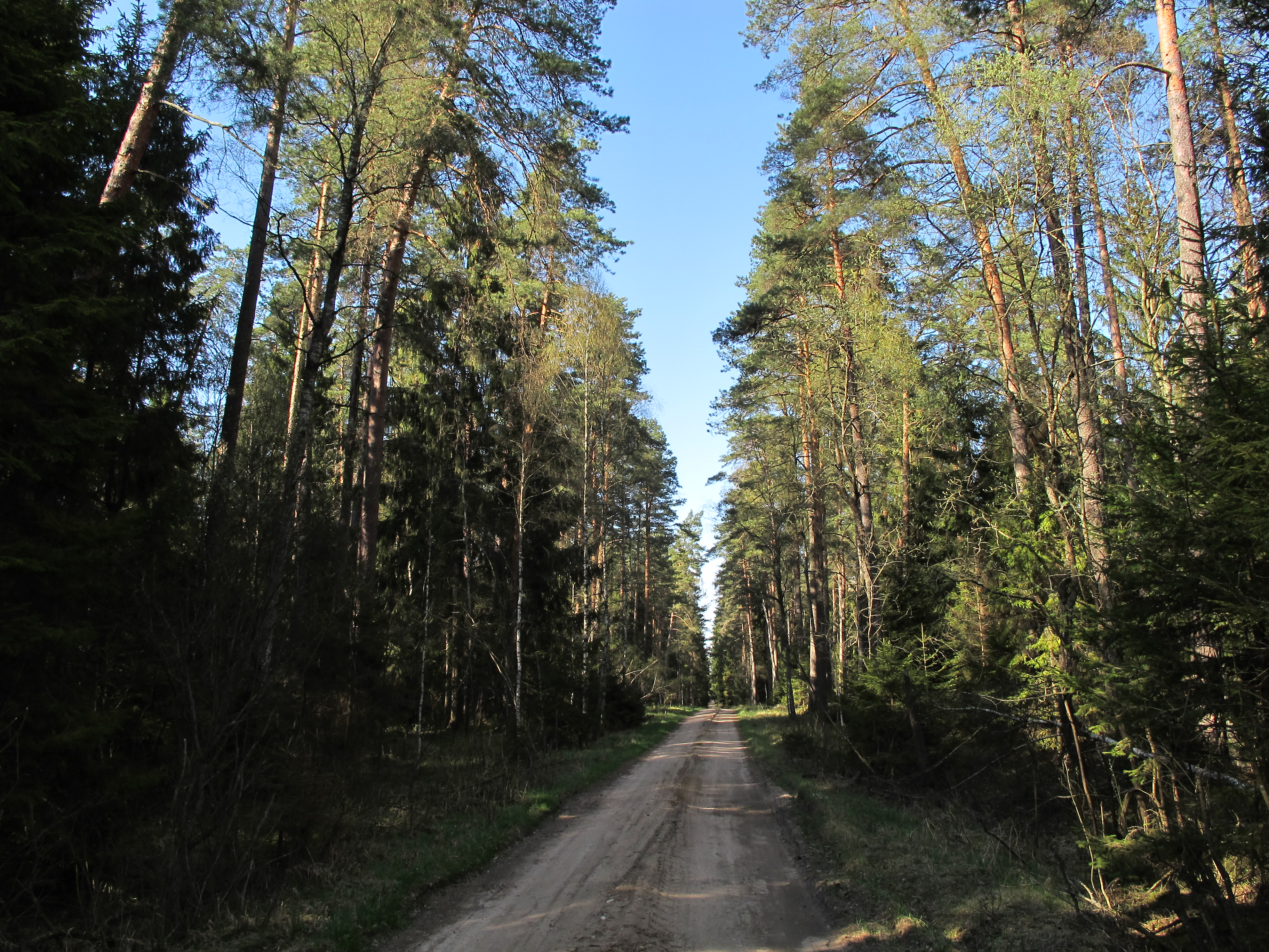 Góra Pieszczana nature reserve in the Knyszyn Forest, gmina Szudziałowo, podlaskie, Poland